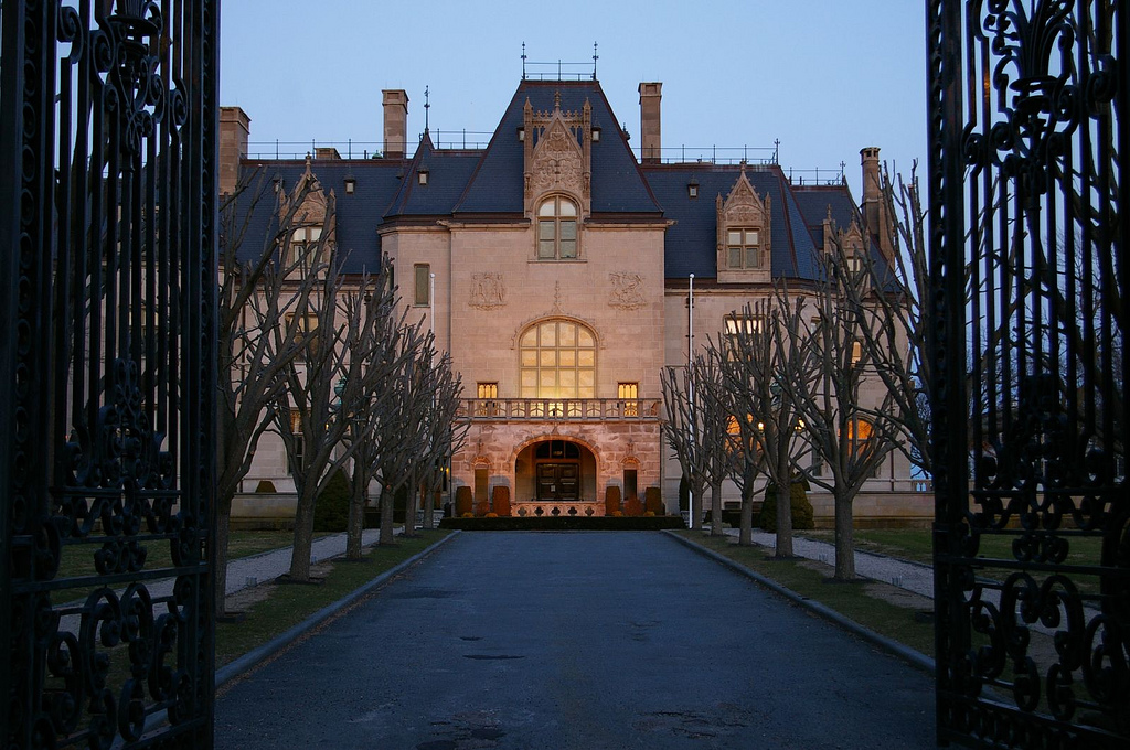 Historic Ochre Court mansion and gates — on the Salve Regina University campus, in Newport, Rhode Island.